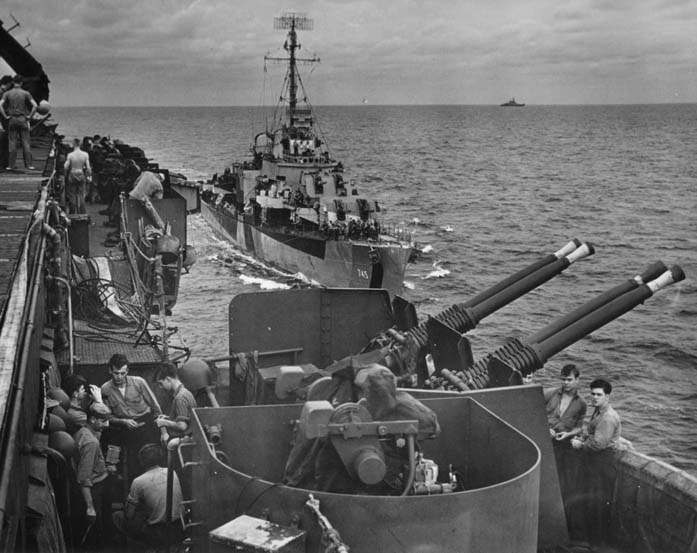 USS Brush (DD-745) coming alongside USS Lexington (CV-16), January 25, 1945. Task Force 38 has attacked Cam Ranh Bay and Okinawa in January, and is heading back to Ulithi for rest.